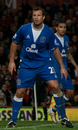 Lucas Neill of Everton F.C., in a match against Manchester United F.C. in November 2009 This file has been extracted from another file: Michael Owen Johnny Heitinga 2.jpg